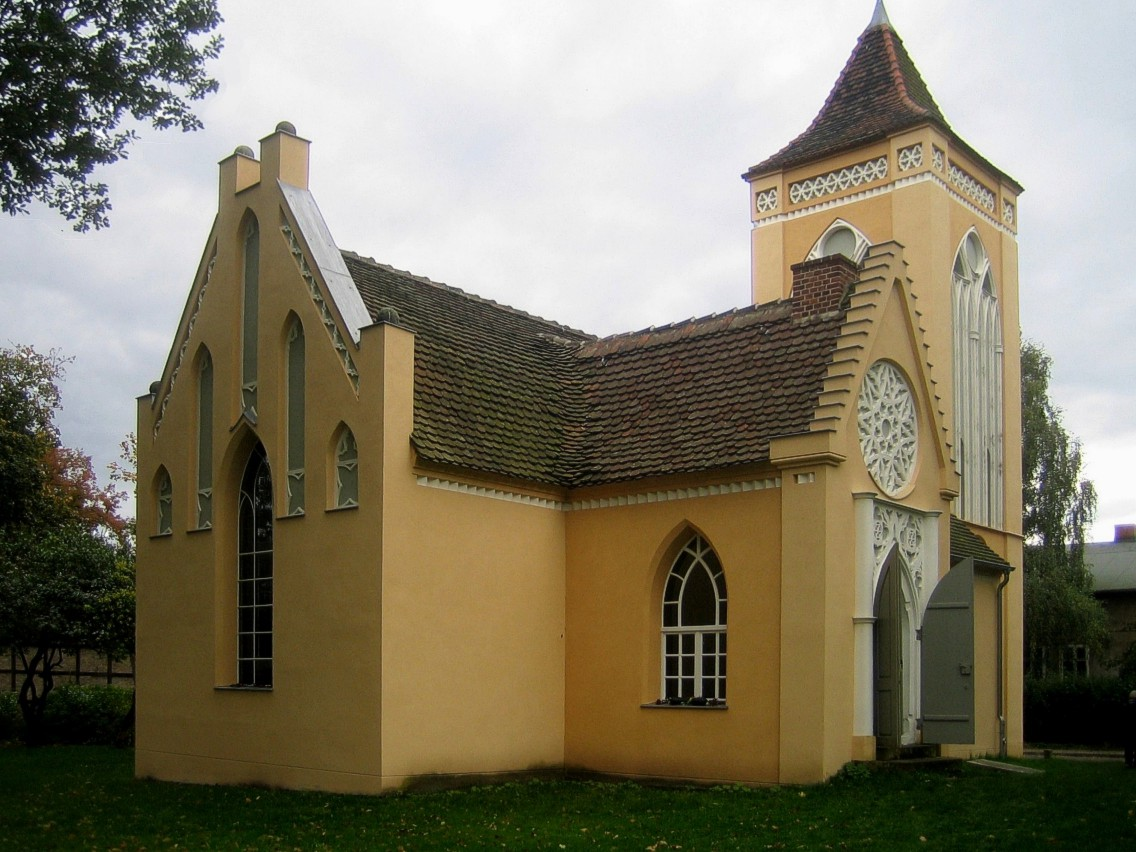 Church in Paretz, a village near Potsdam, Germany.